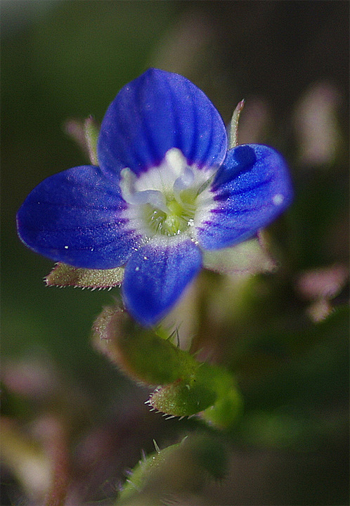 Veronica sp. (but not Veronica persica); original description: A macro view of flower of persian speedwell (Veronica persica) taken in Adana province of Turkey.